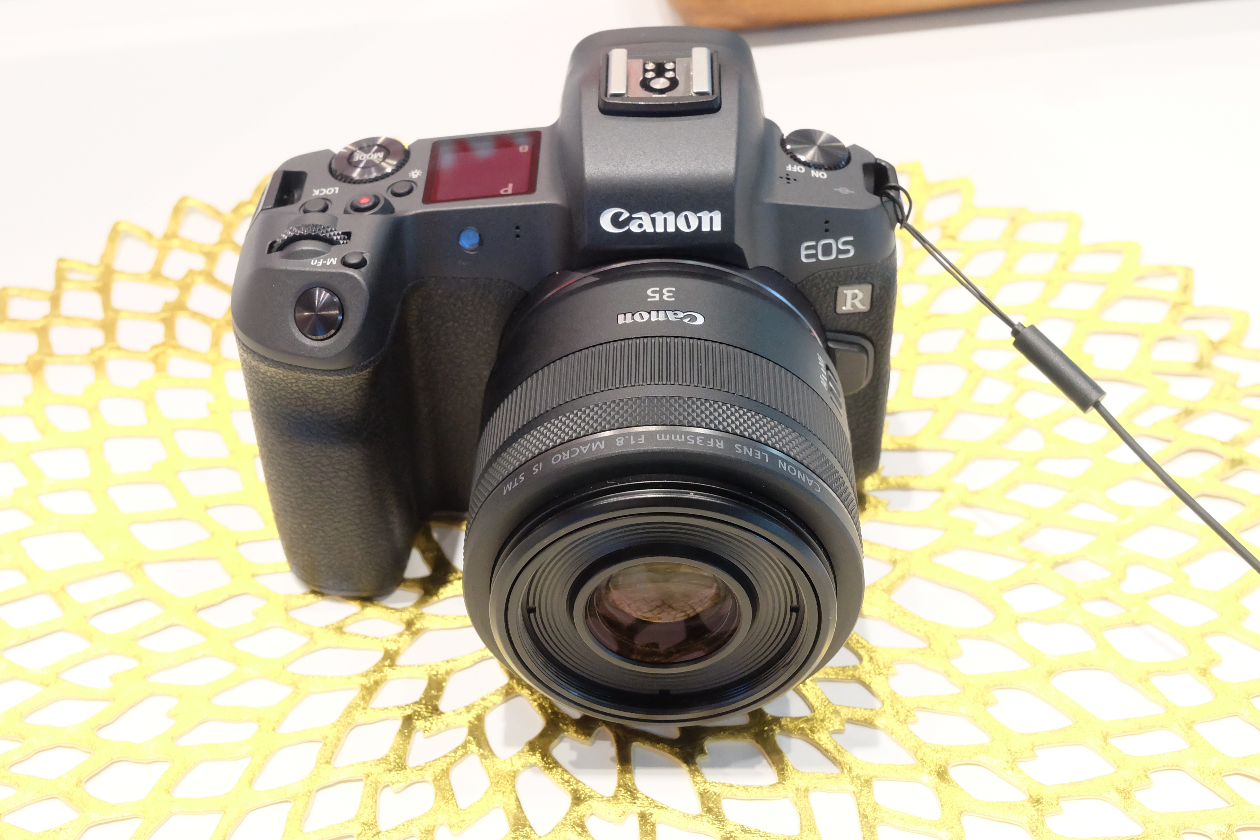 Canon EOS R, photo taken at Canon Gallery S on Shinagawa, Tokyo, Japan